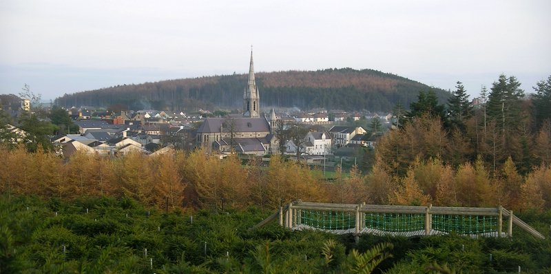 Castlewellan village, from the Peace Maze. Copyright Paul Dundas, 2005